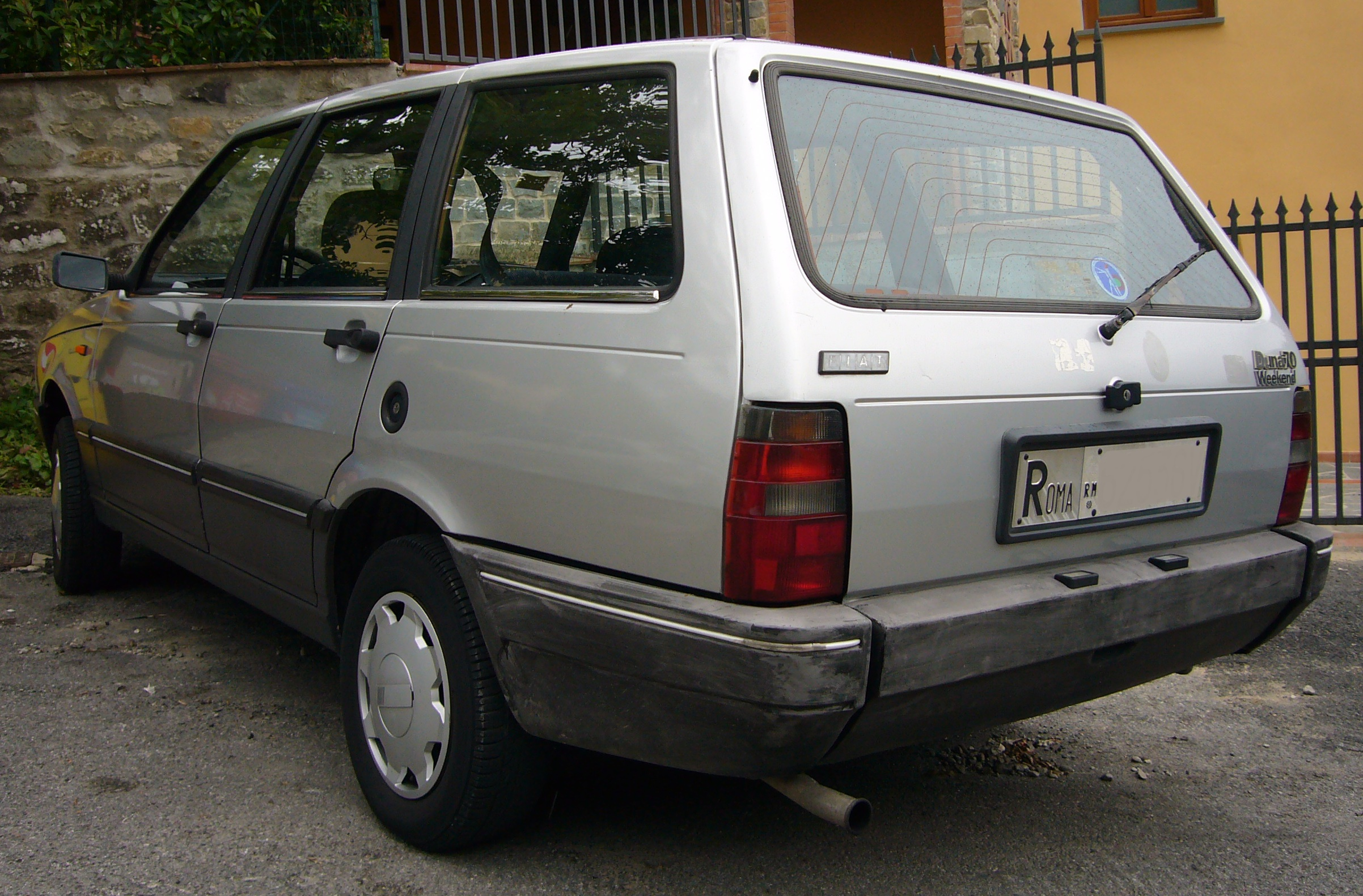 Fiat Duna Weekend 70 car in Tuscany, Italy.